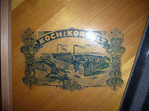 Pianino Koch&Korselt